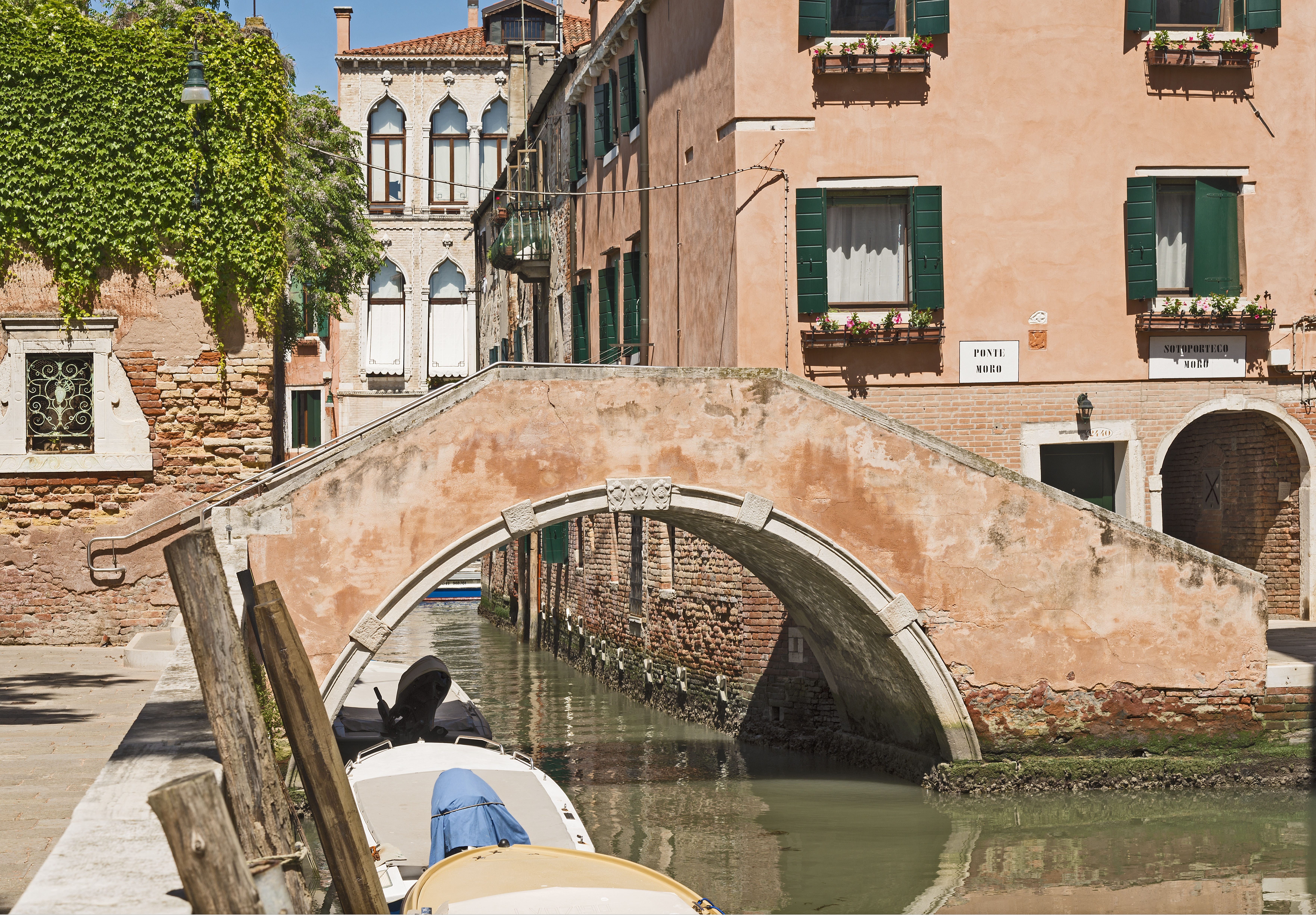 Ponte Moro from San Marziale, in Venice, on rio del Grimani.